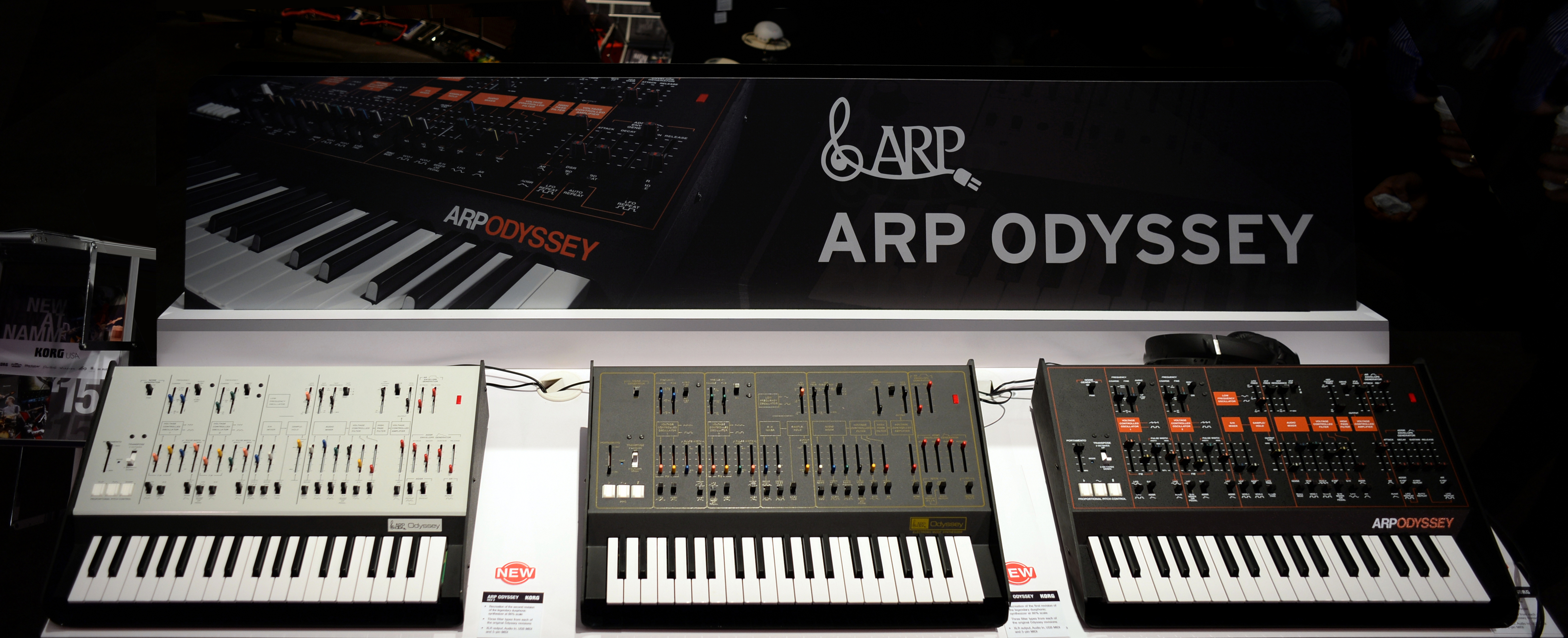 ARP Odyssey reissued by KORG, 3 color variations: left: white panel (rev.1 color) center: gold on black panel (rev.2 color) right: orange on black panel (rev.3 color)